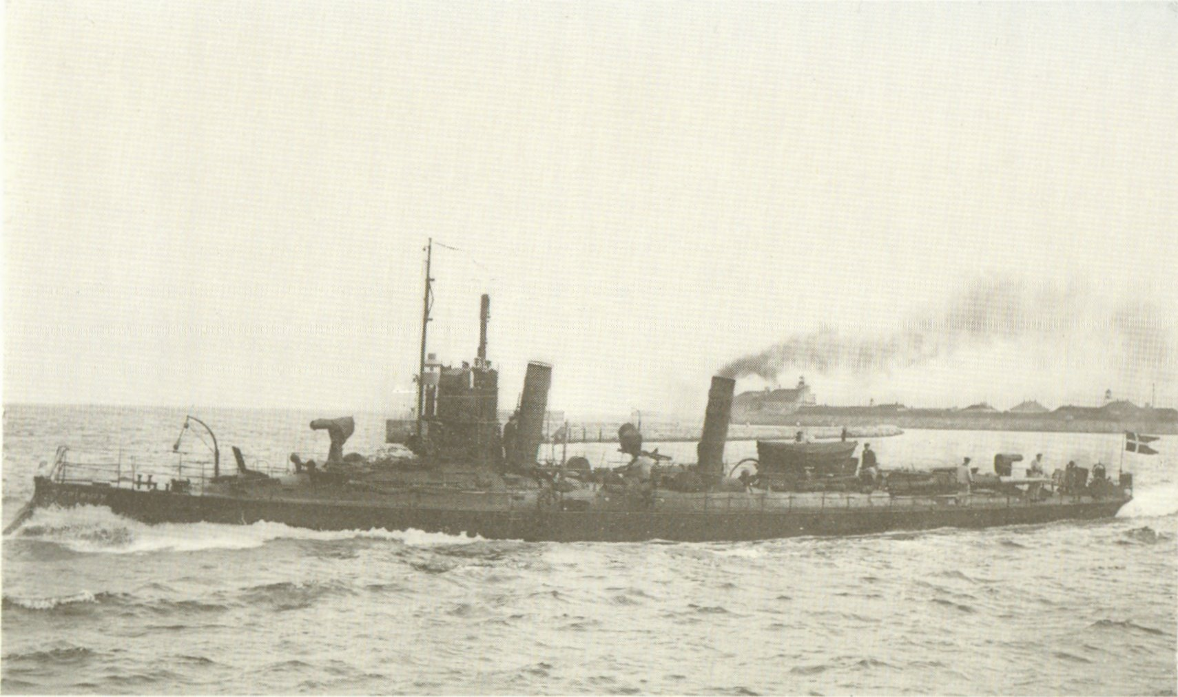 Danish Torpedo Boat Søløven. Built by Thornycroft, England, 1887.